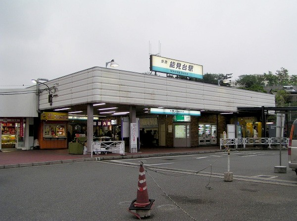 Nokendai Station entrance